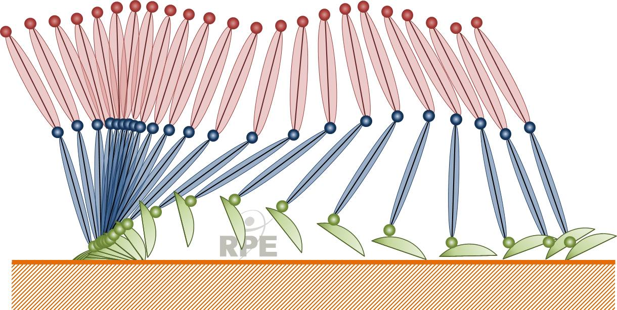 Depiction of the legs during one gaitcycle